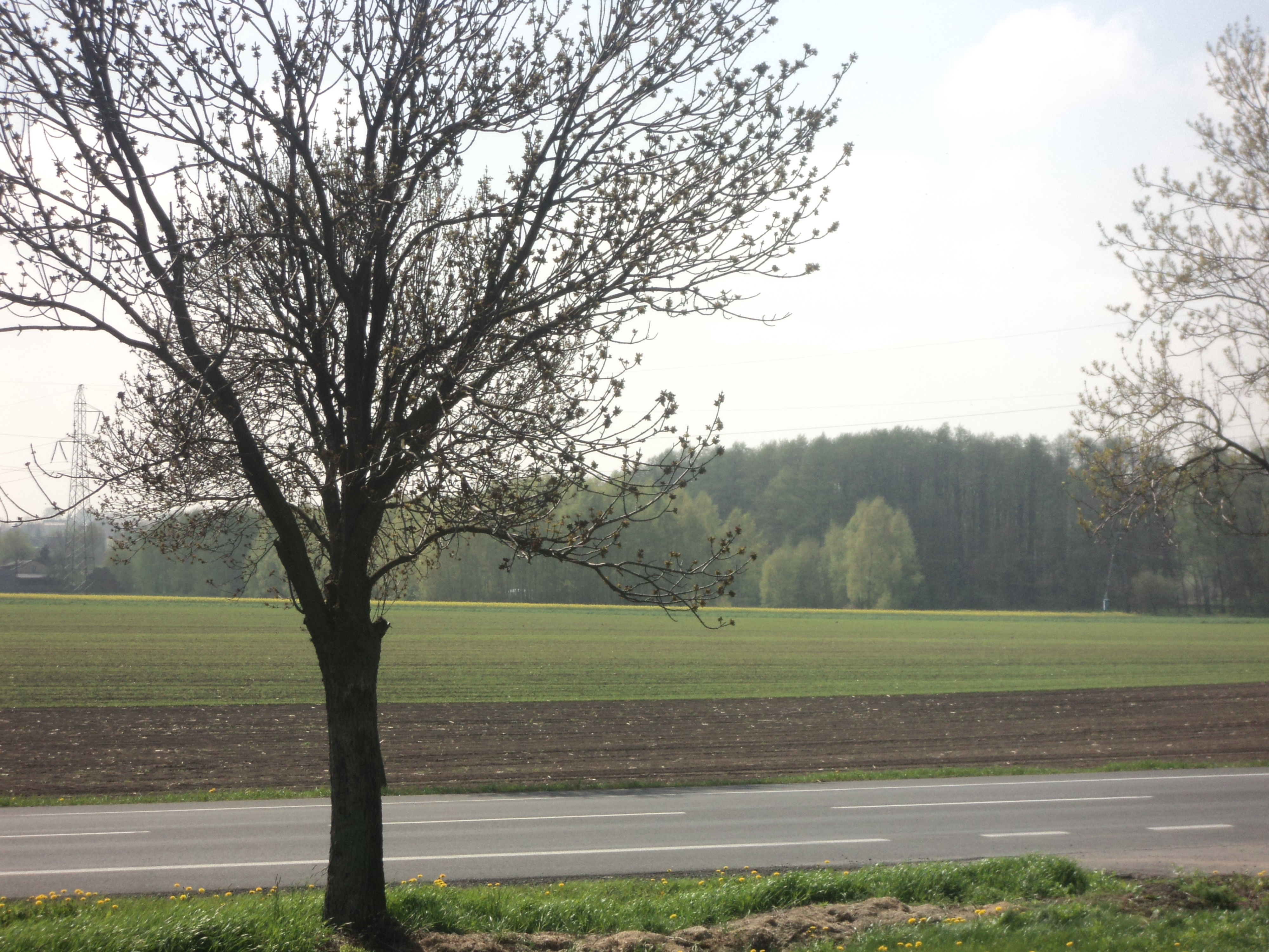 E92 in Cząstków